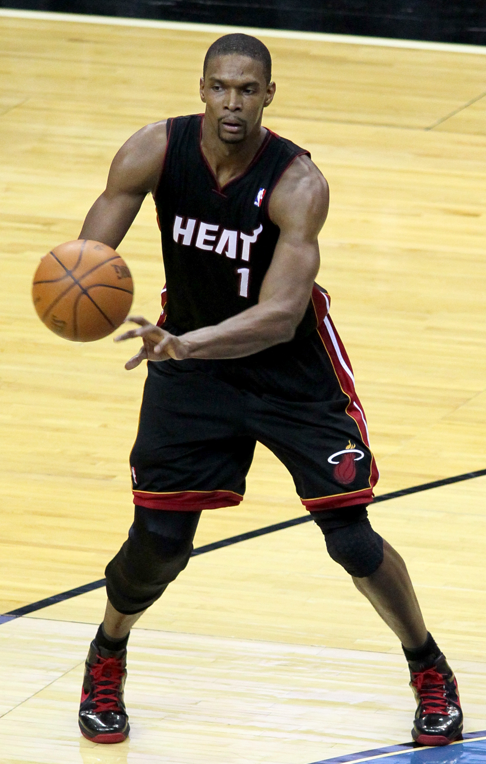 Washington Wizards v/s Miami Heat December 18, 2010